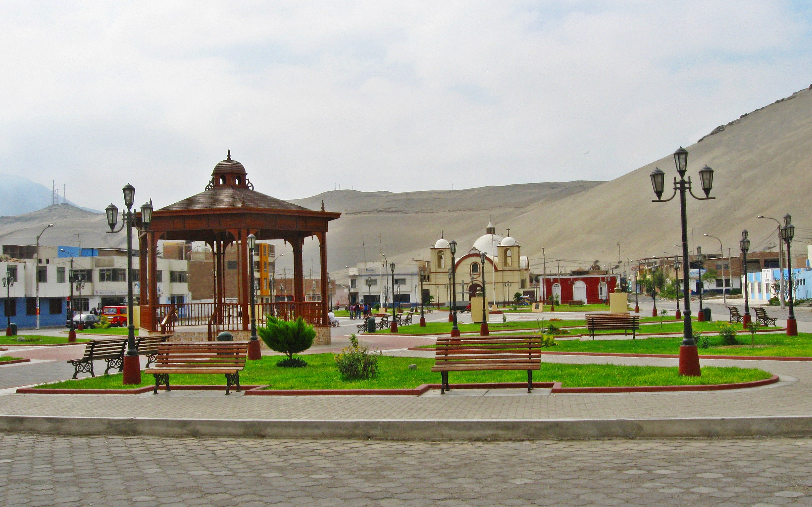 Plaza de Armas de Salaverry